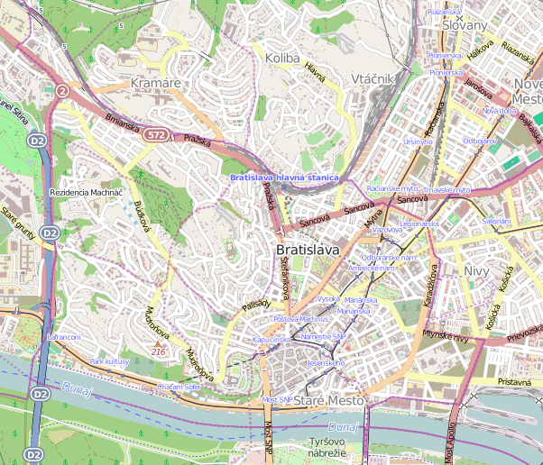 This map of Bratislava, Slovakia was created from OpenStreetMap project data, collected by the community. This map may be incomplete, and may contain errors. Don't rely solely on it for navigation.